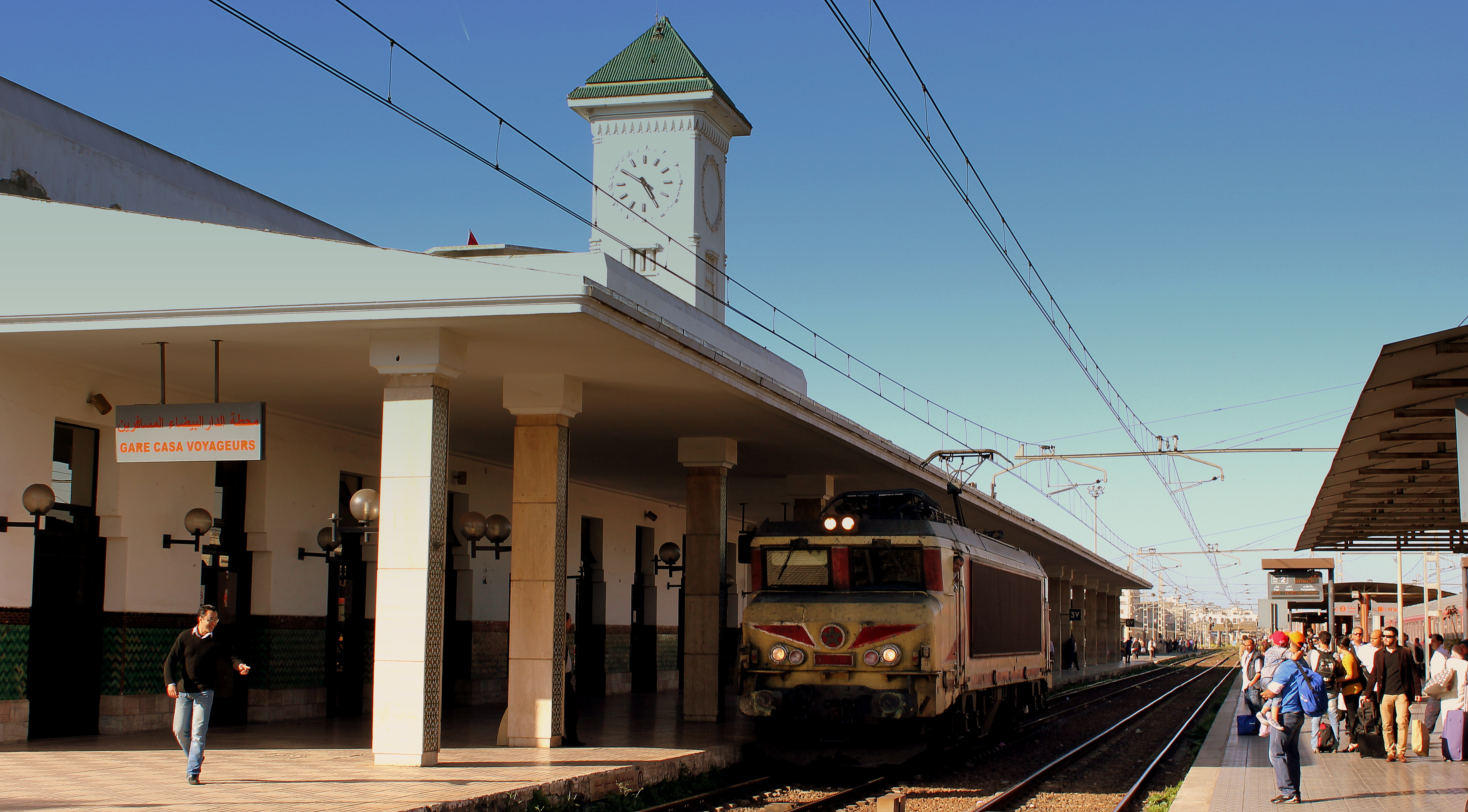 Casa Voyageurs train station in Casablanca, Morocco